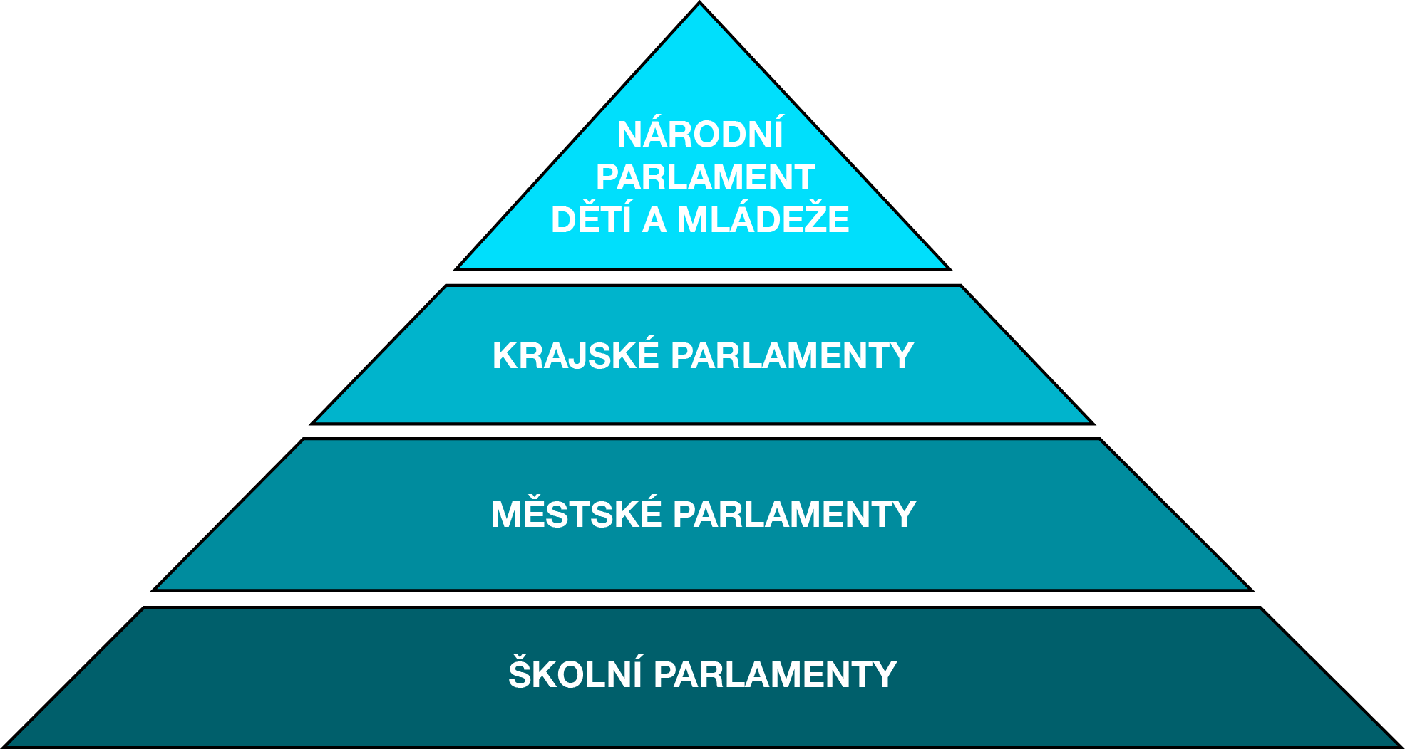 Struktura dětských parlamentů ČR